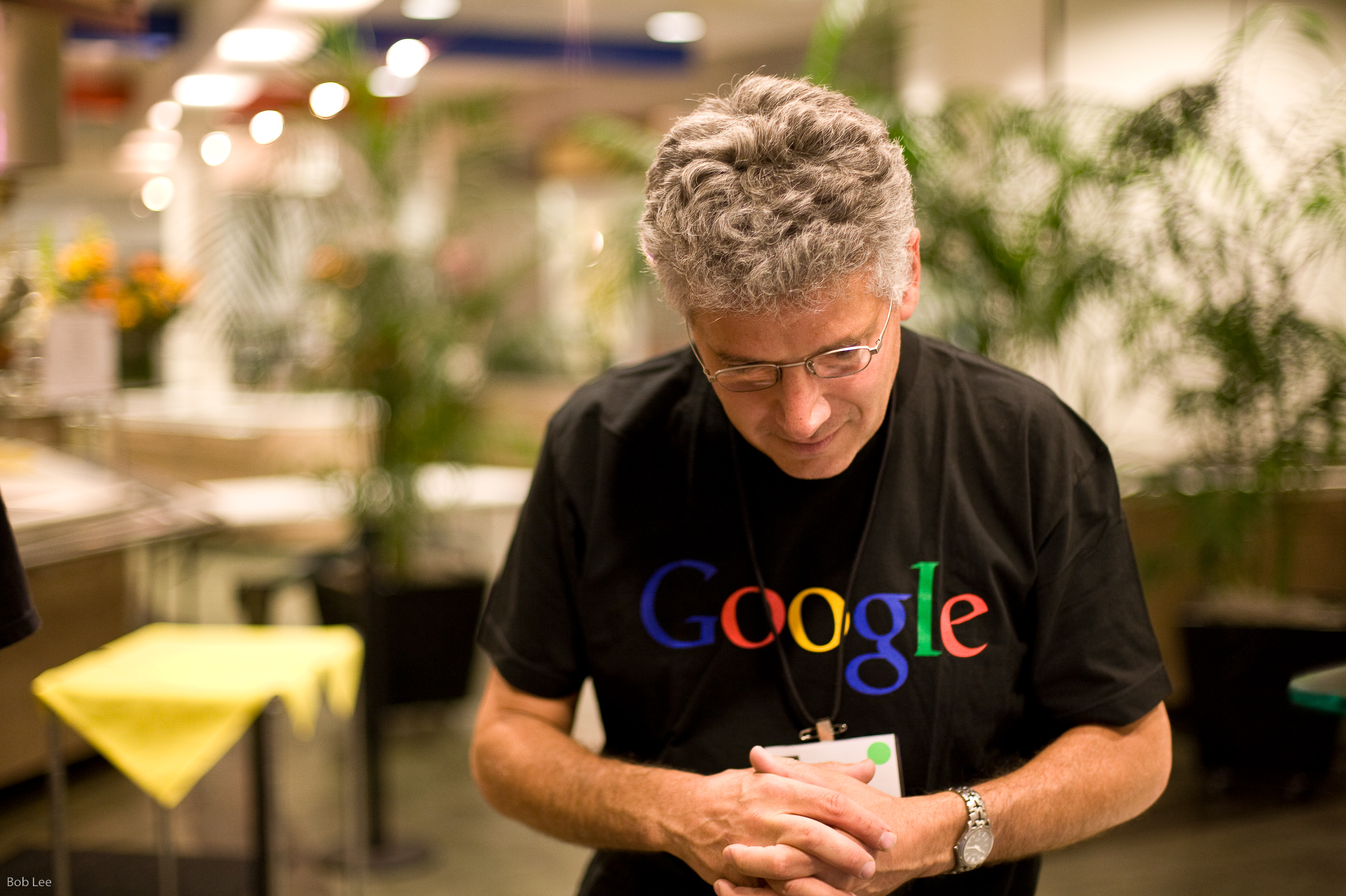 Joshua Bloch in 2008.